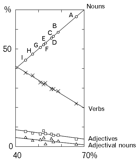 Plot of the points based on the revised Ohno's lexical law by Mizutani. The user tossh_eng analyzed the data of Ohno (1956) according to Mizutani (1989). The figure is depicted using Justsystem Hanako by the same uploader.